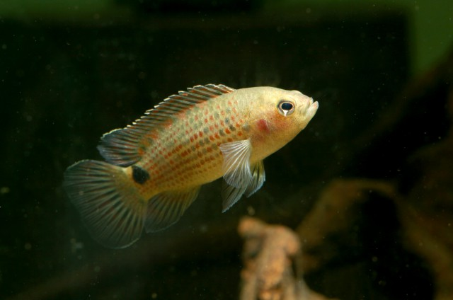 Badis khwae (Kullander & Britze, 2002)